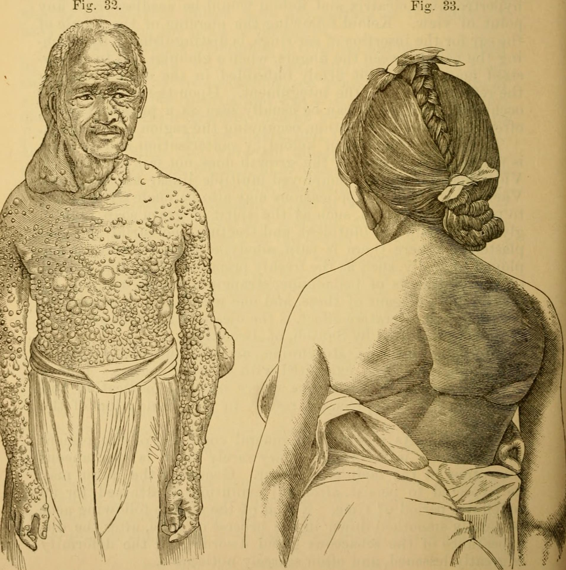 Fig 32. Molluscum Fibrosum. (Gross.) Fig 33. Large single fibroma. (From a photograph.) Title: A practical treatise on diseases of the skin, for the use of students and practitioners Year: 1883 (1880s) Authors: Hyde, James Nevins, 1840-1910 Subjects: Skin Publisher: Philadelphia, H. C. Lea's son & co.